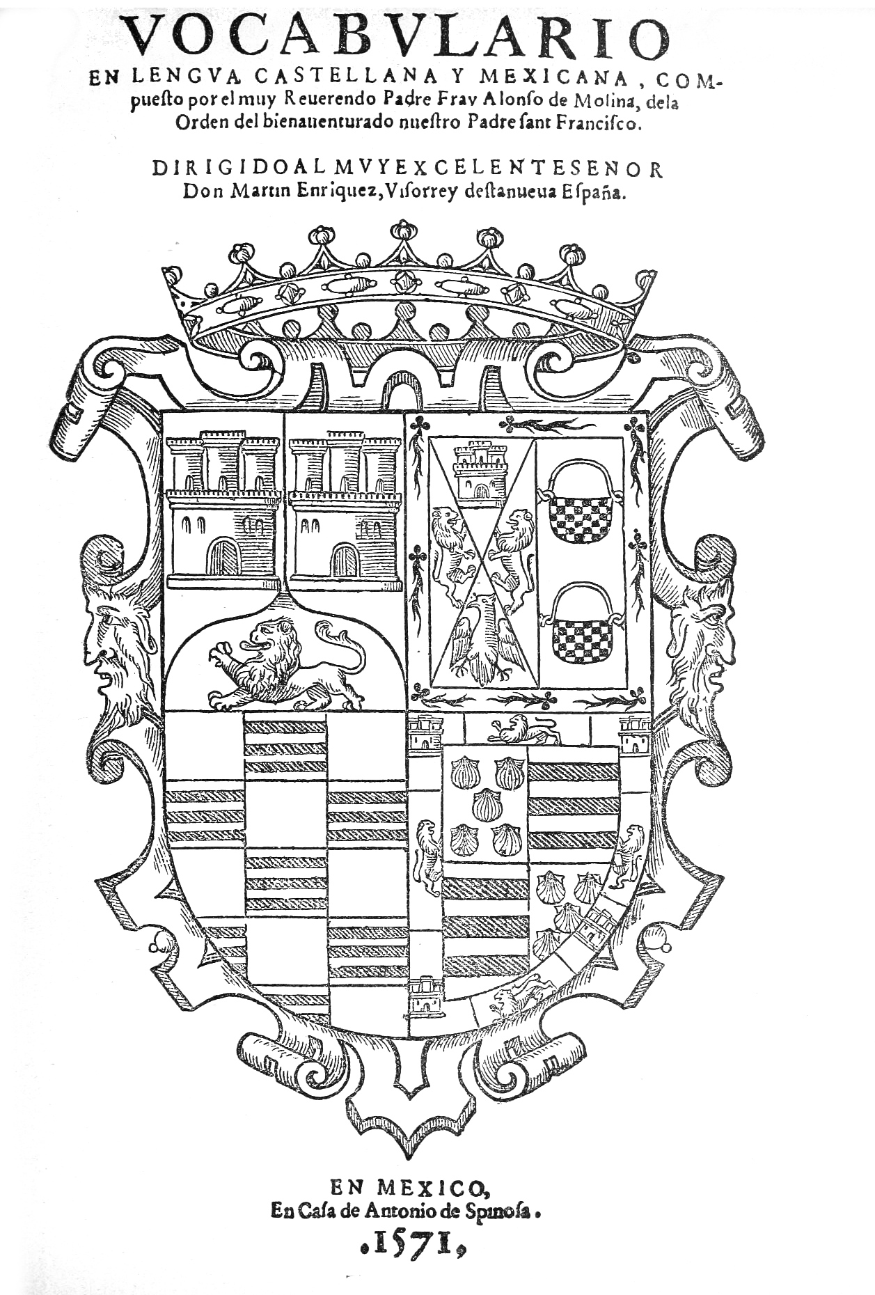 Cover of dictionary by Molina - Vocabulary en lengua castellana y mexicana (1571) by Alonso de Molina (d. 1579).